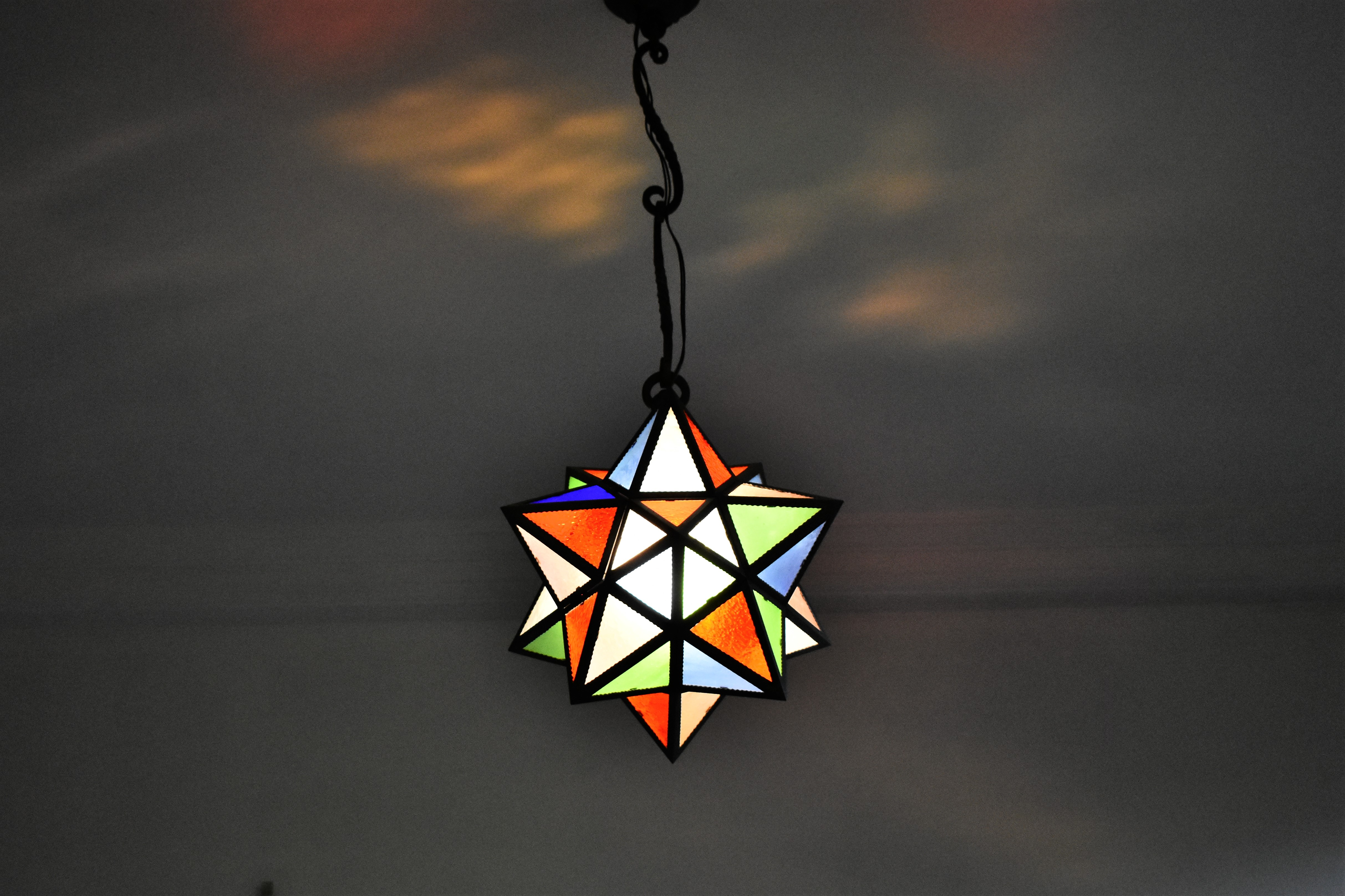 The illumination made of stained glass at the Tokyo Metropolitan Teien Art Museum consists of 5-sided pyramids on each faces of a dodecahedron, otherwise known as a Small stellated dodecahedron.